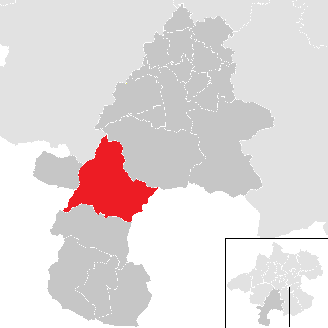 district Gmunden